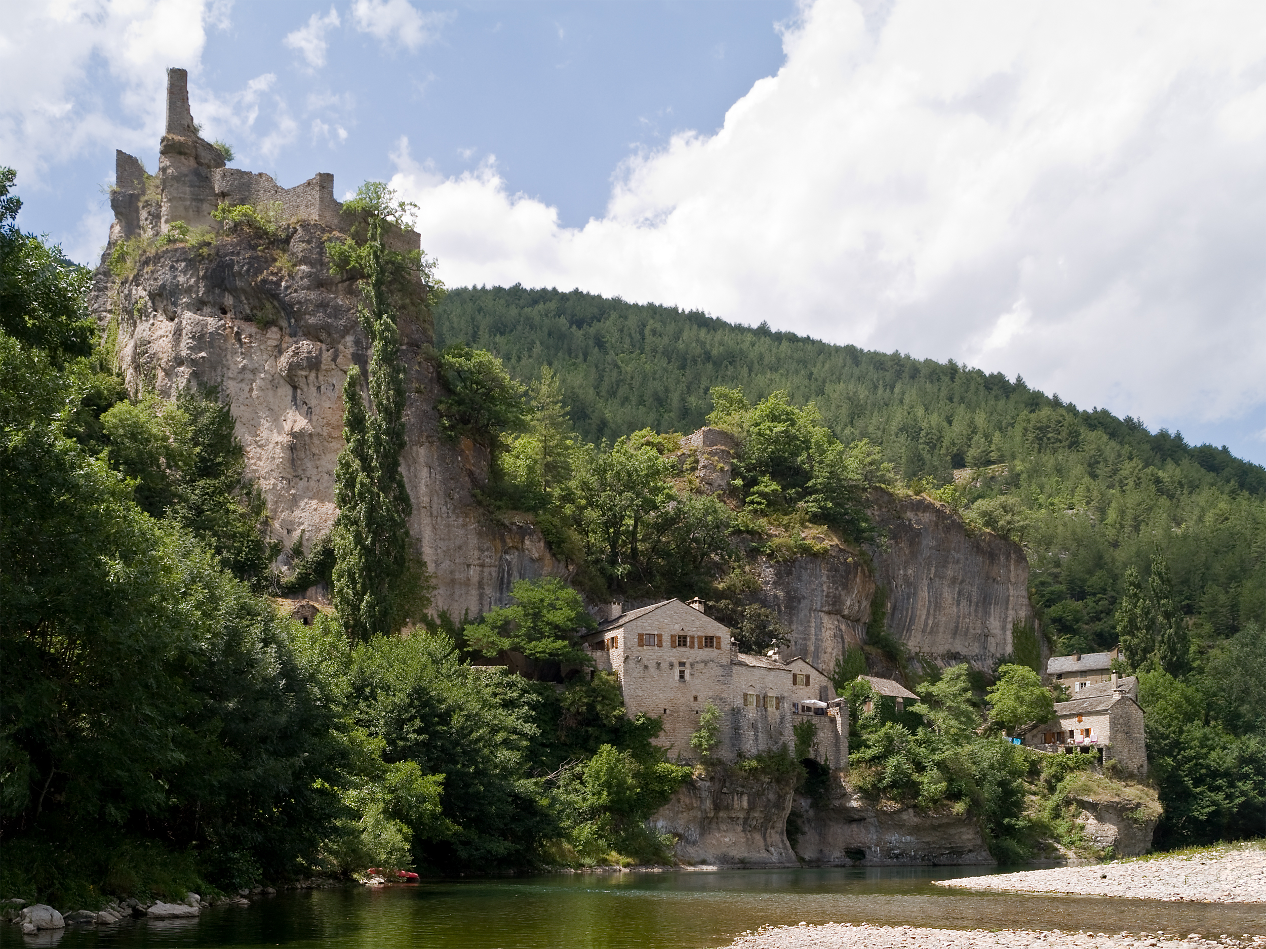 The village of Castelbouc, in the Gorges du Tarn, on the left bank of the Tarn river (Lozère, France).